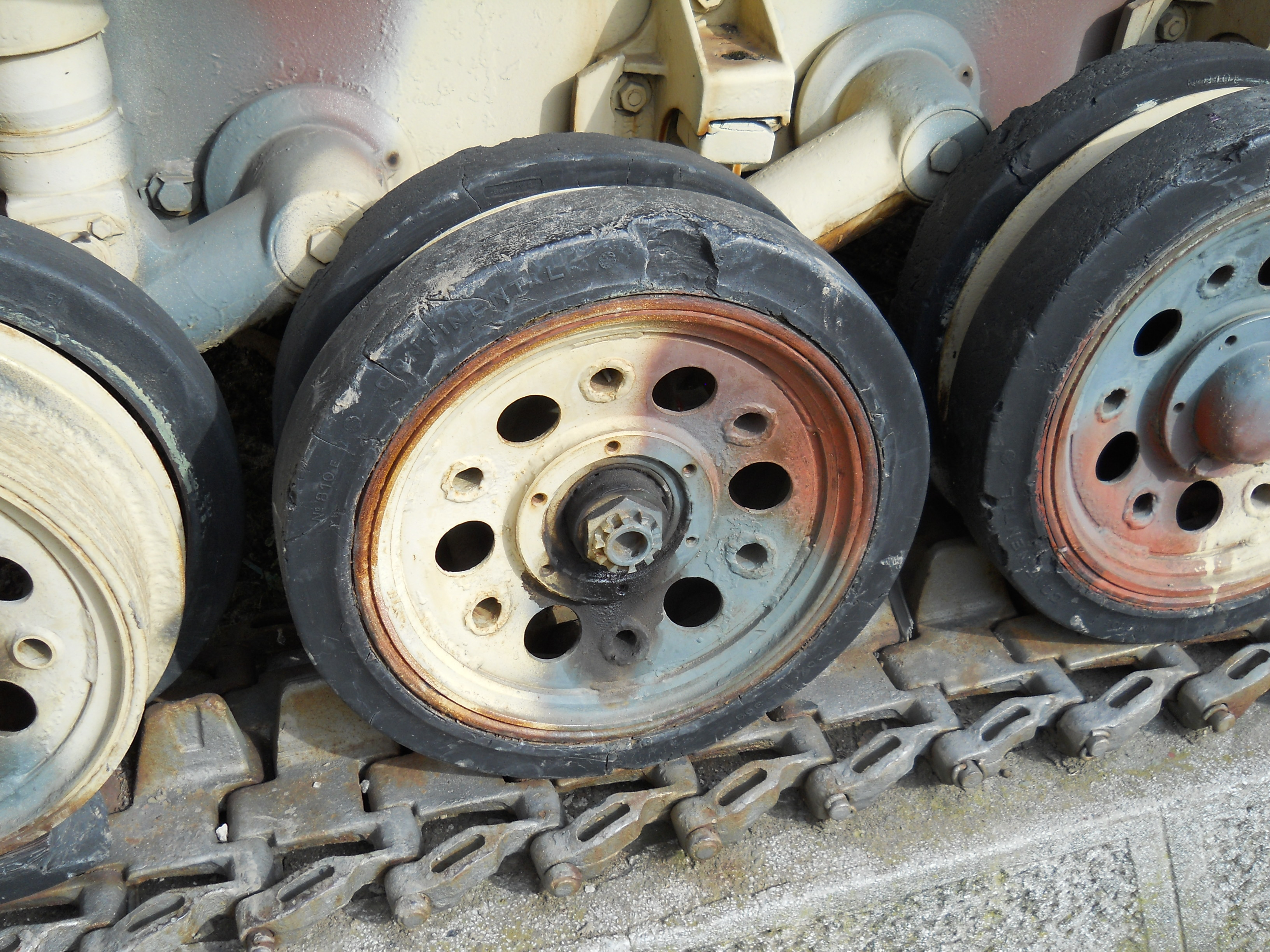 Stug III suspension wheel